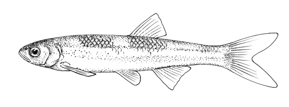 Comely shiner (Notropis amoenus)